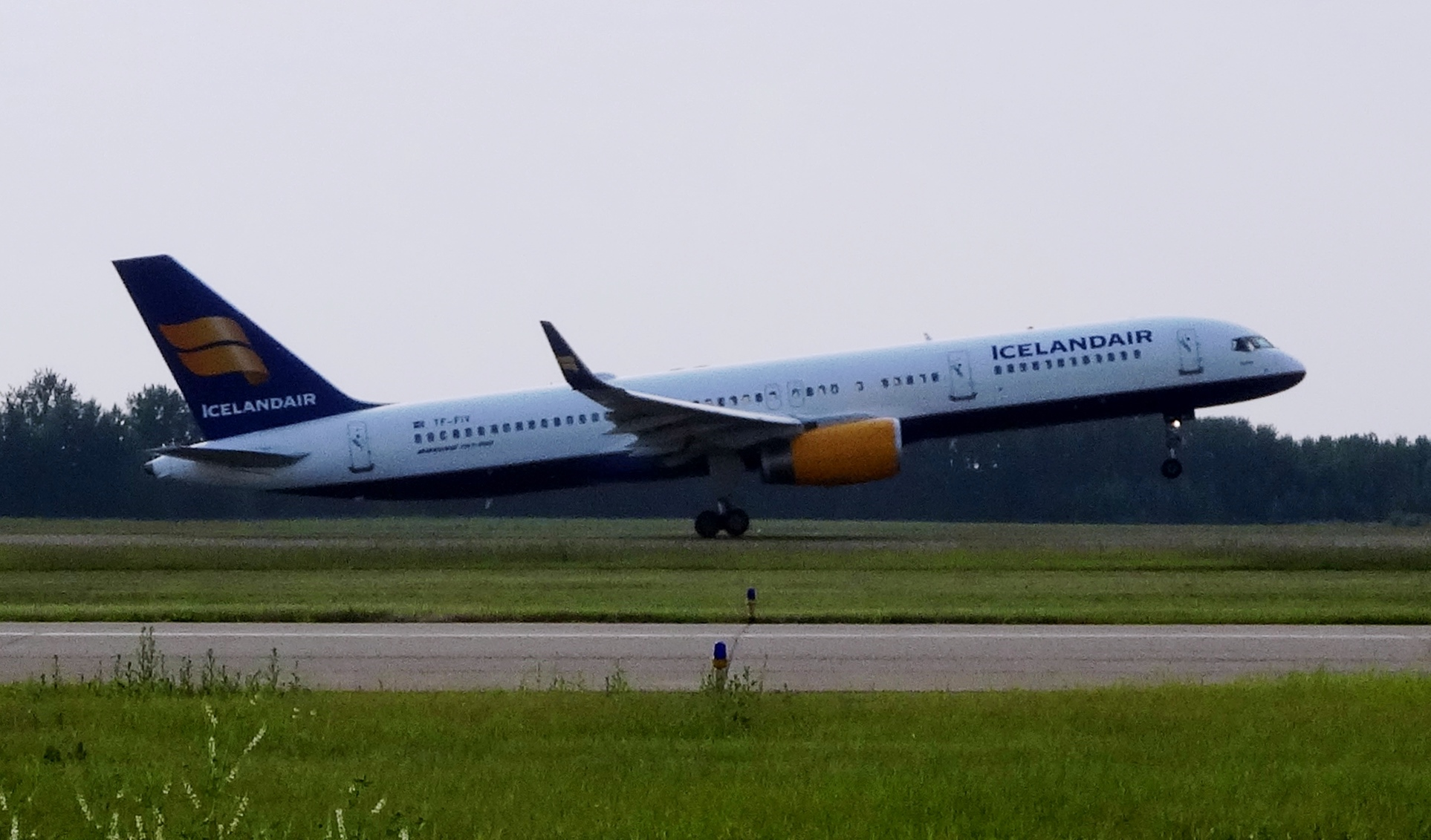 Icelandair 757 at Edmonton International Airport